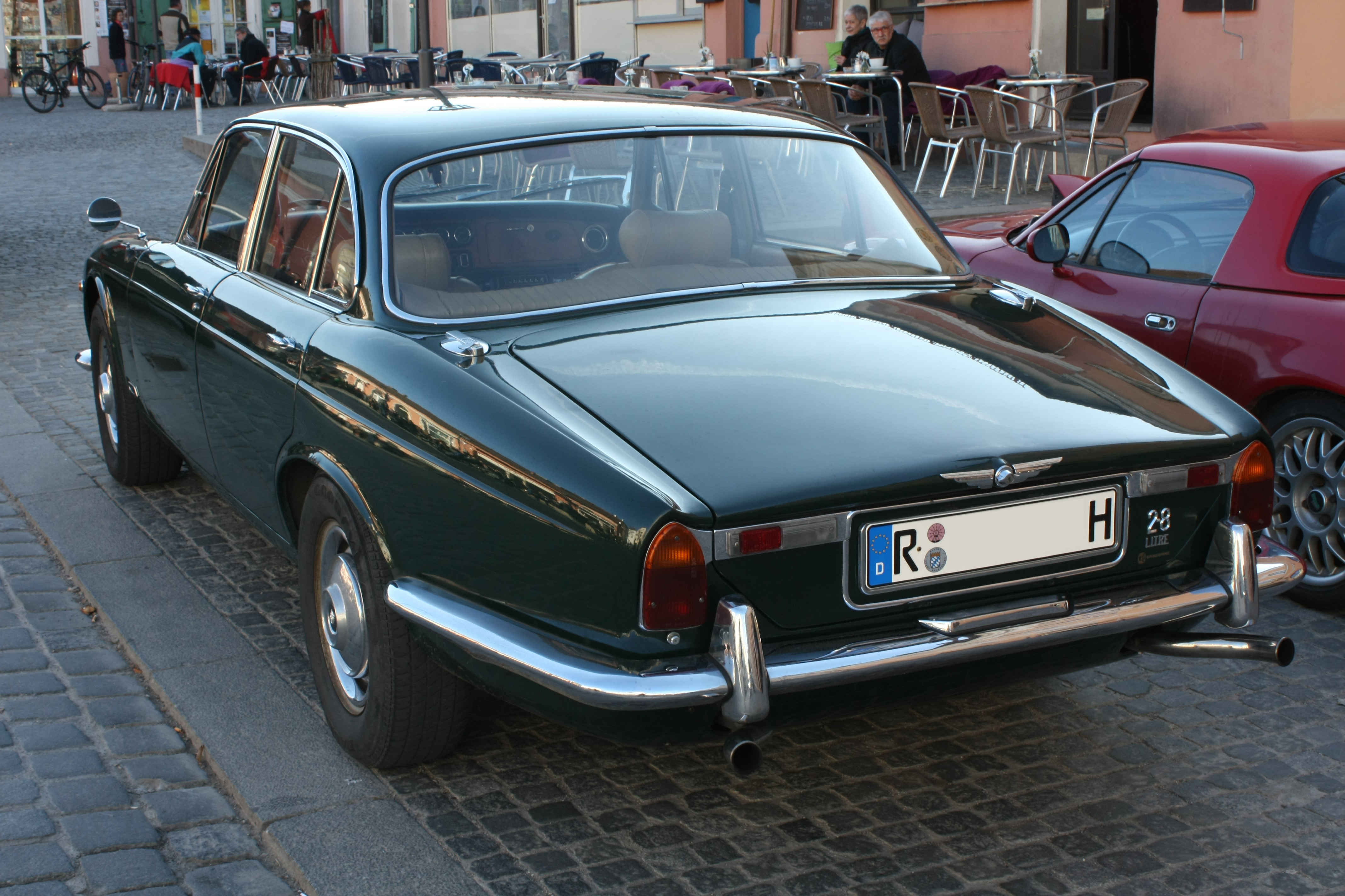 Jaguar XJ6 Series I 2.8 Litre